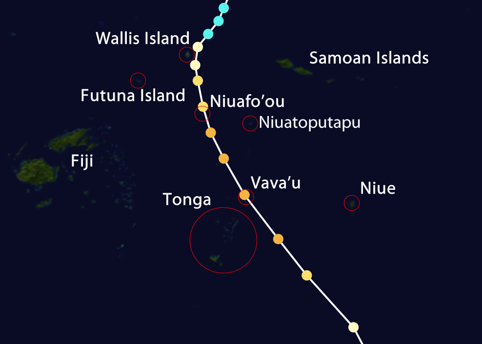 Track map of Severe Tropical Cyclone Waka of the 2001–02 South Pacific cyclone season. The points show the location of the storm at 6-hour intervals. The colour represents the storm's maximum sustained wind speeds as classified in the Saffir-Simpson Hurricane Scale (see below), and the shape of the data points represent the nature of the storm, according to the legend below. Saffir–Simpson hurricane wind scale Tropical depression≤38 mph≤62 km/h Category 3111–129 mph178–208 km/h Tropical storm39–73 mph63–118 km/h Category 4130–156 mph209–251 km/h Category 174–95 mph119–153 km/h Category 5≥157 mph≥252 km/h Category 296–110 mph154–177 km/h Unknown Storm typeTropical cycloneSubtropical cycloneExtratropical cyclone / Remnant low / Tropical disturbance